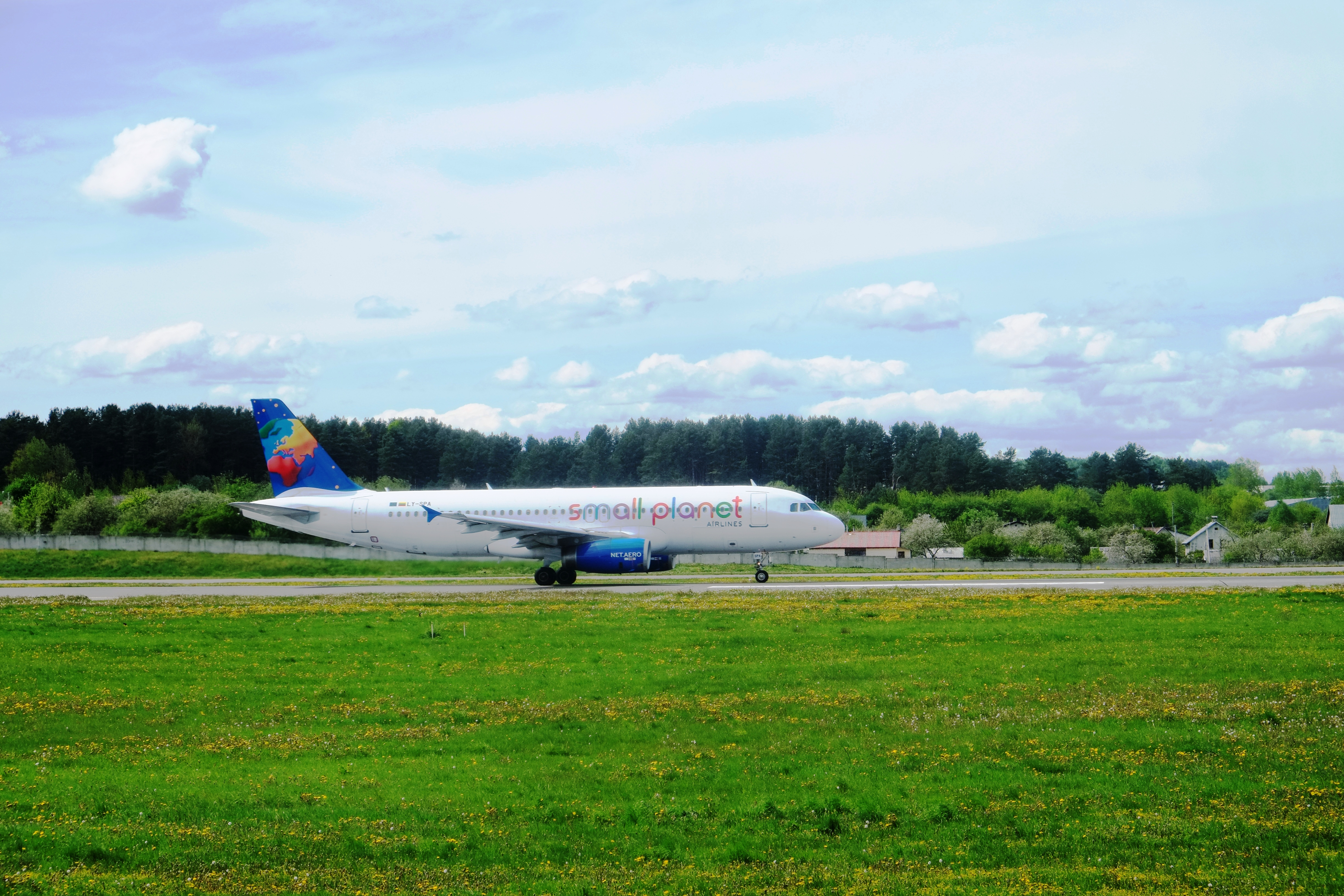 Airbus A320 of Small Planet Airlines.